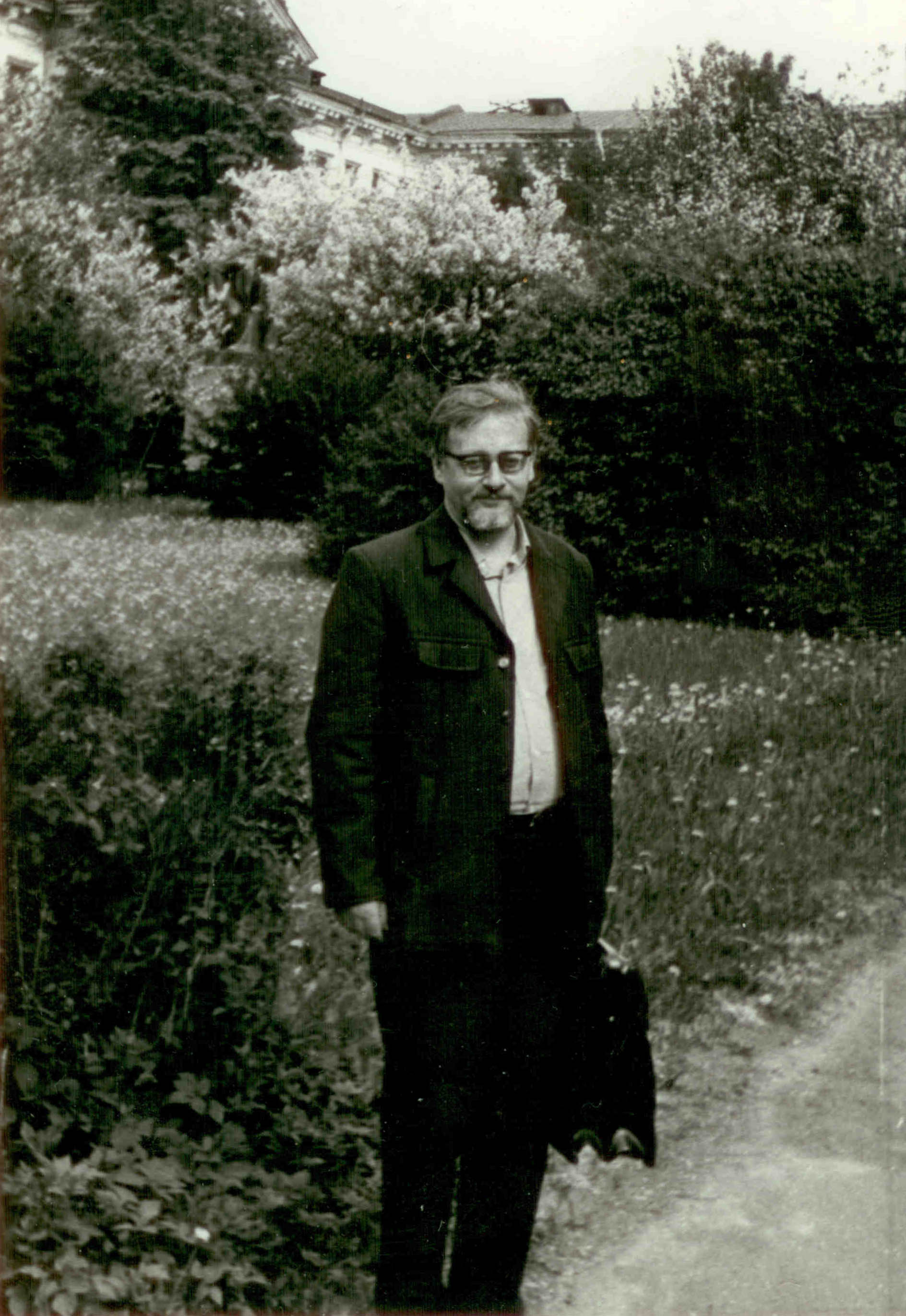 Yuti Yappa in 1984